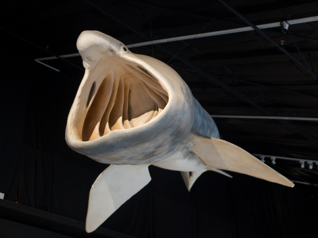 Cetorhinus maximus